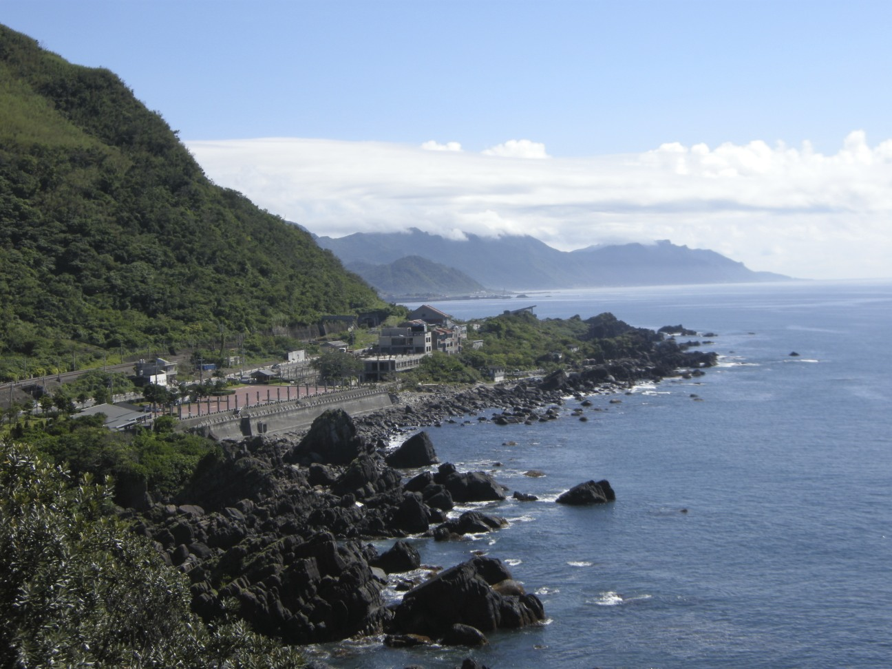 The Beiguan Tidal Park is located in Gengxin Neighborhood (formerly named Gengfang), Toucheng Township, Yilan County and was called Lancheng in the past.